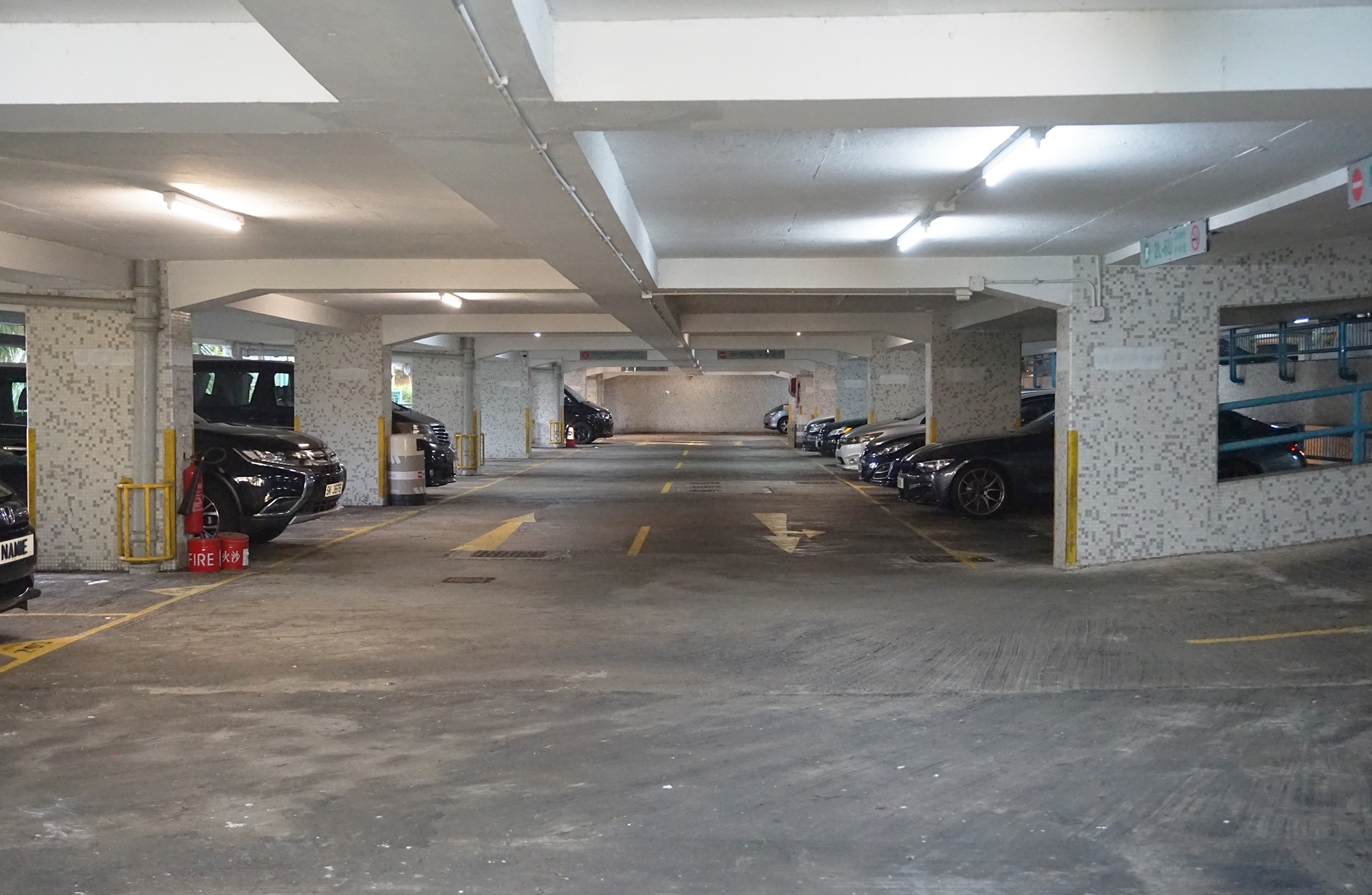 Hong Pak Court in Lam Tin, Hong Kong.